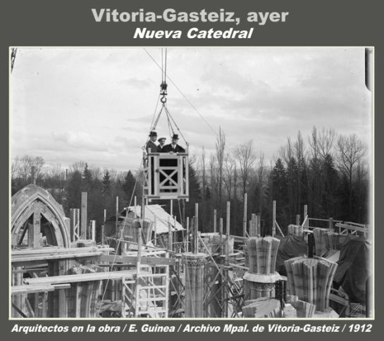 a brief step in history